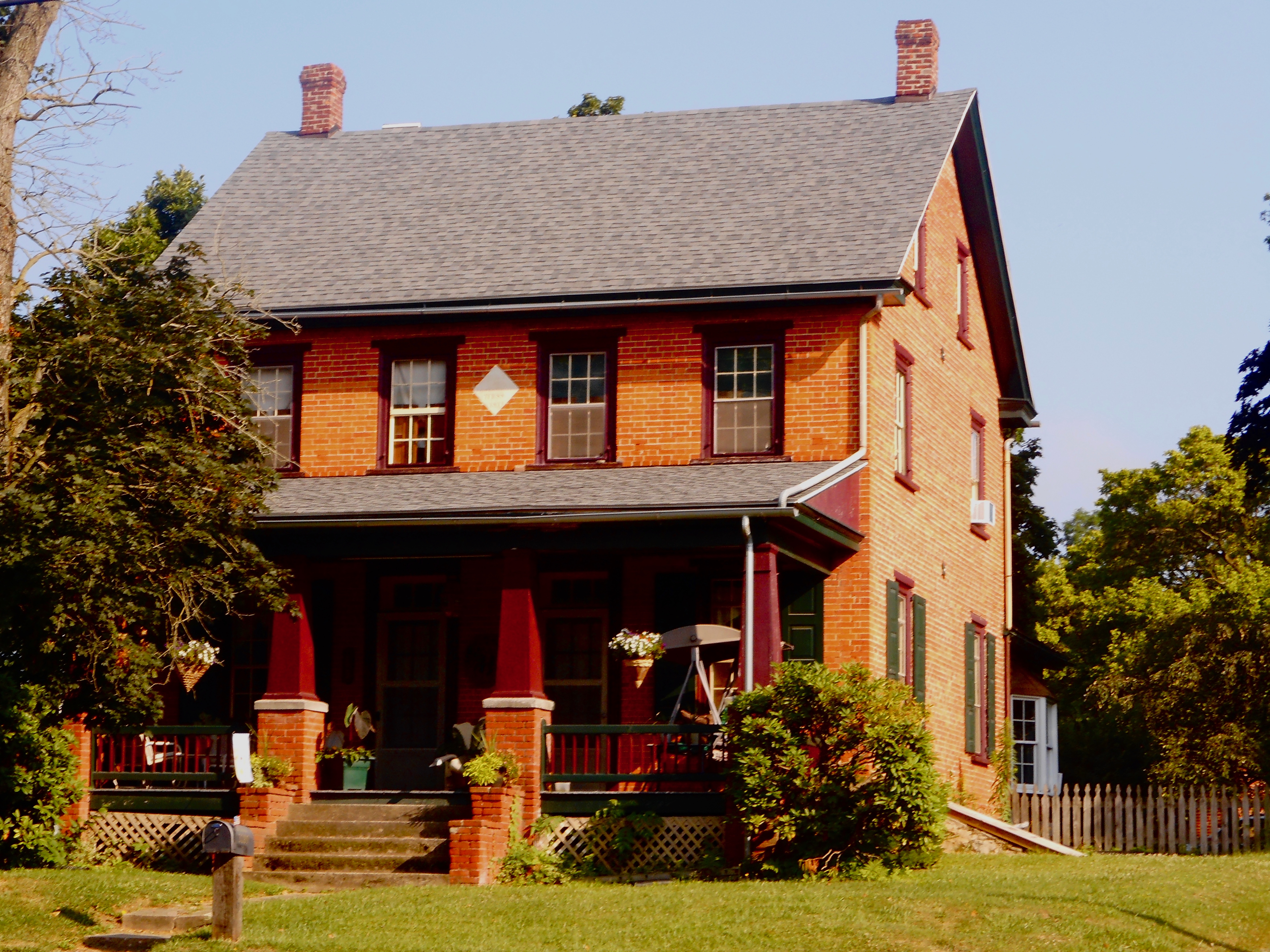 Hess House on Main Street in Conestoga, Pennsylvania ,built in 1811 according to the diamond shaped datestone in th middle of the 2nd floor which reads approximately "Built by Jacob S.& Alia (?)/Ann Hess 1811"